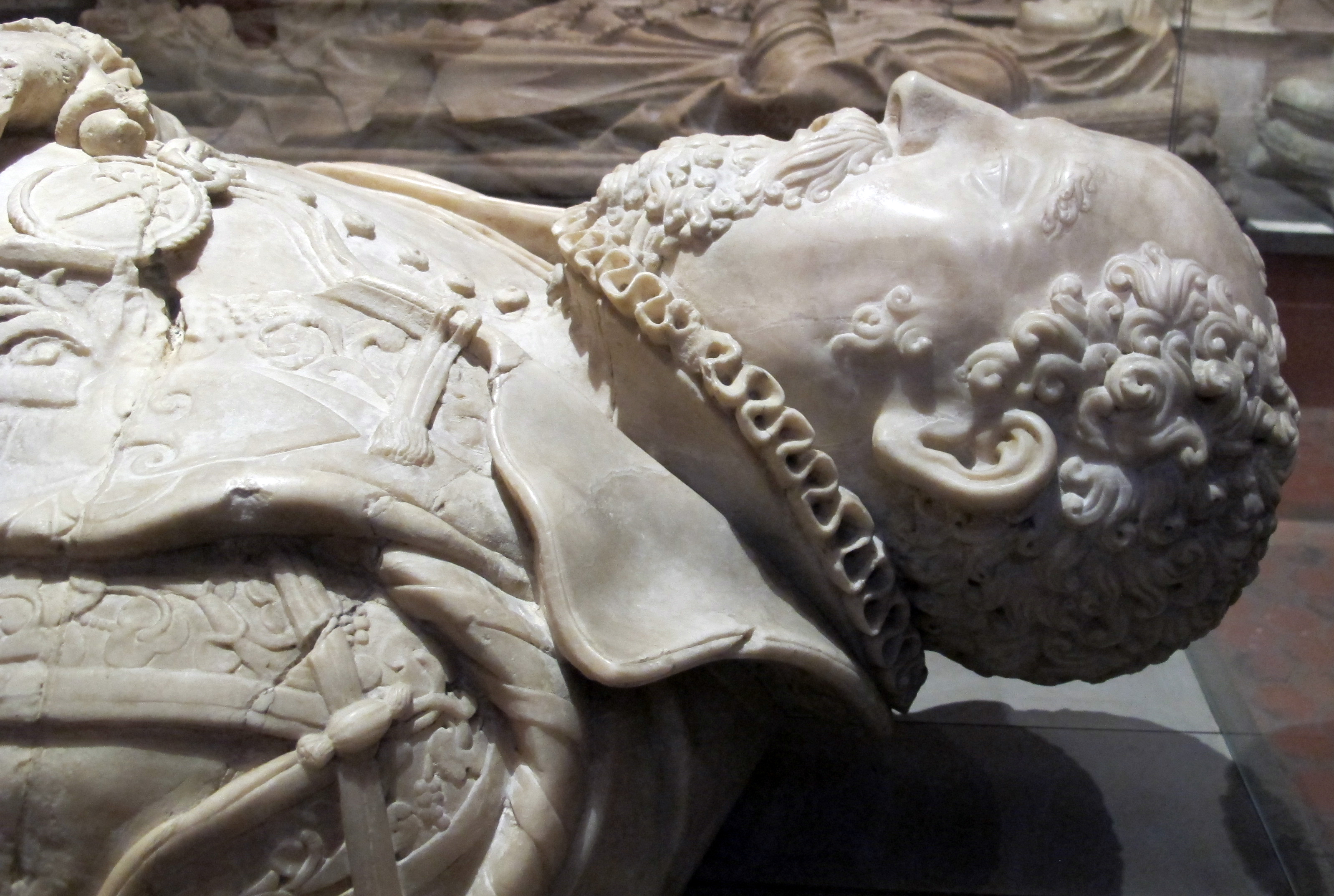 Sculptures in the Hispanic Society of America